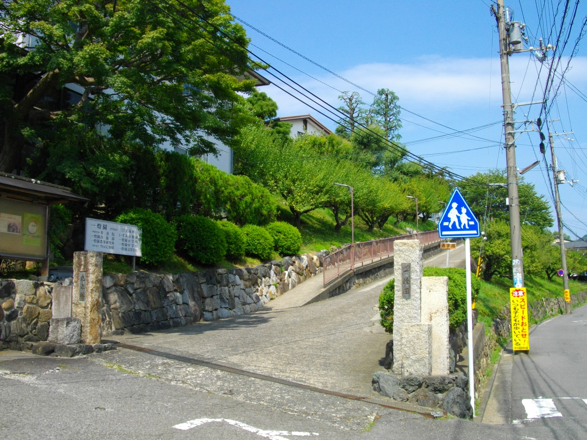 Ittoen Headquarters